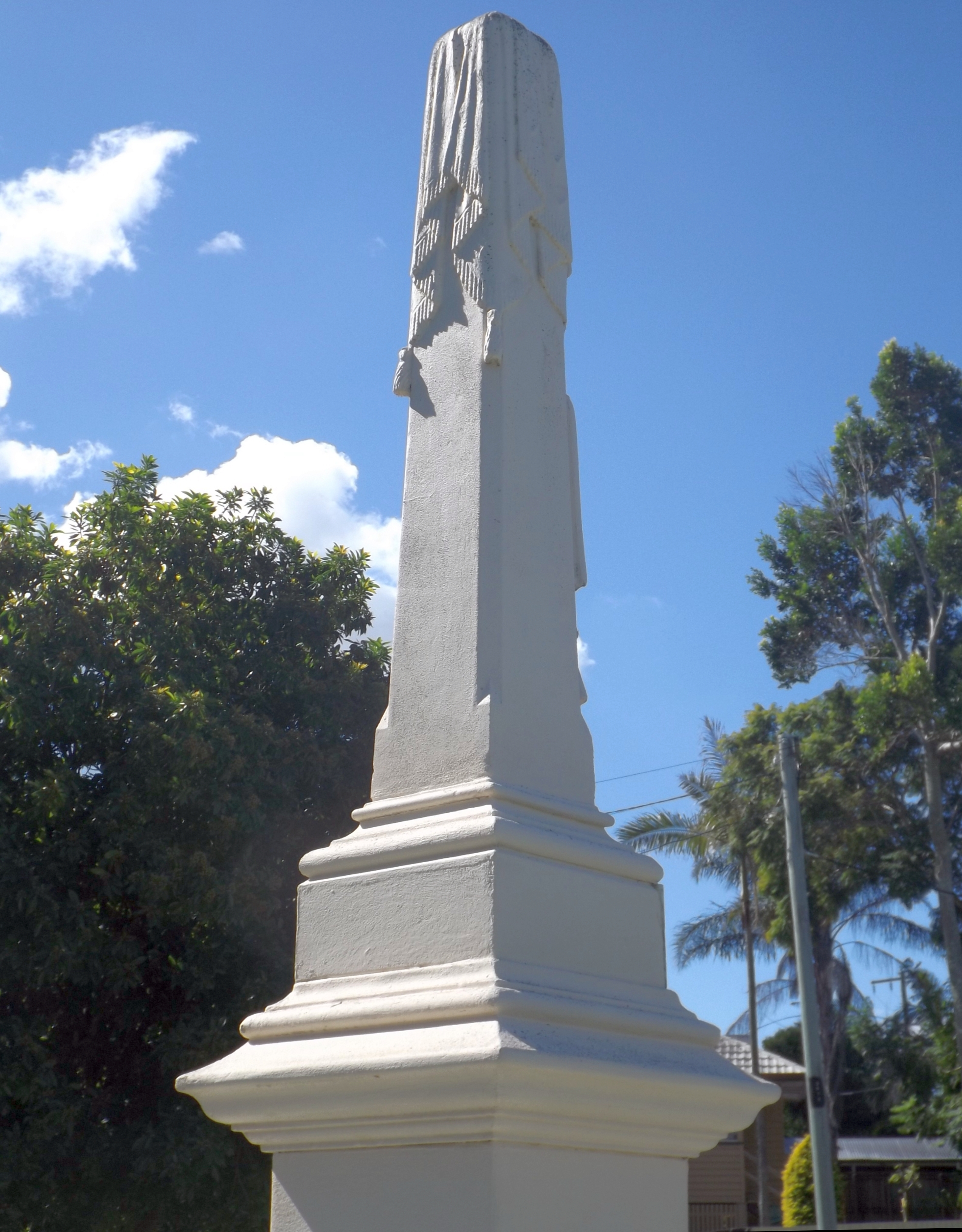 Photo of detail of Anning Monument at Hemmant, Brisbane, Queensland, Australia.